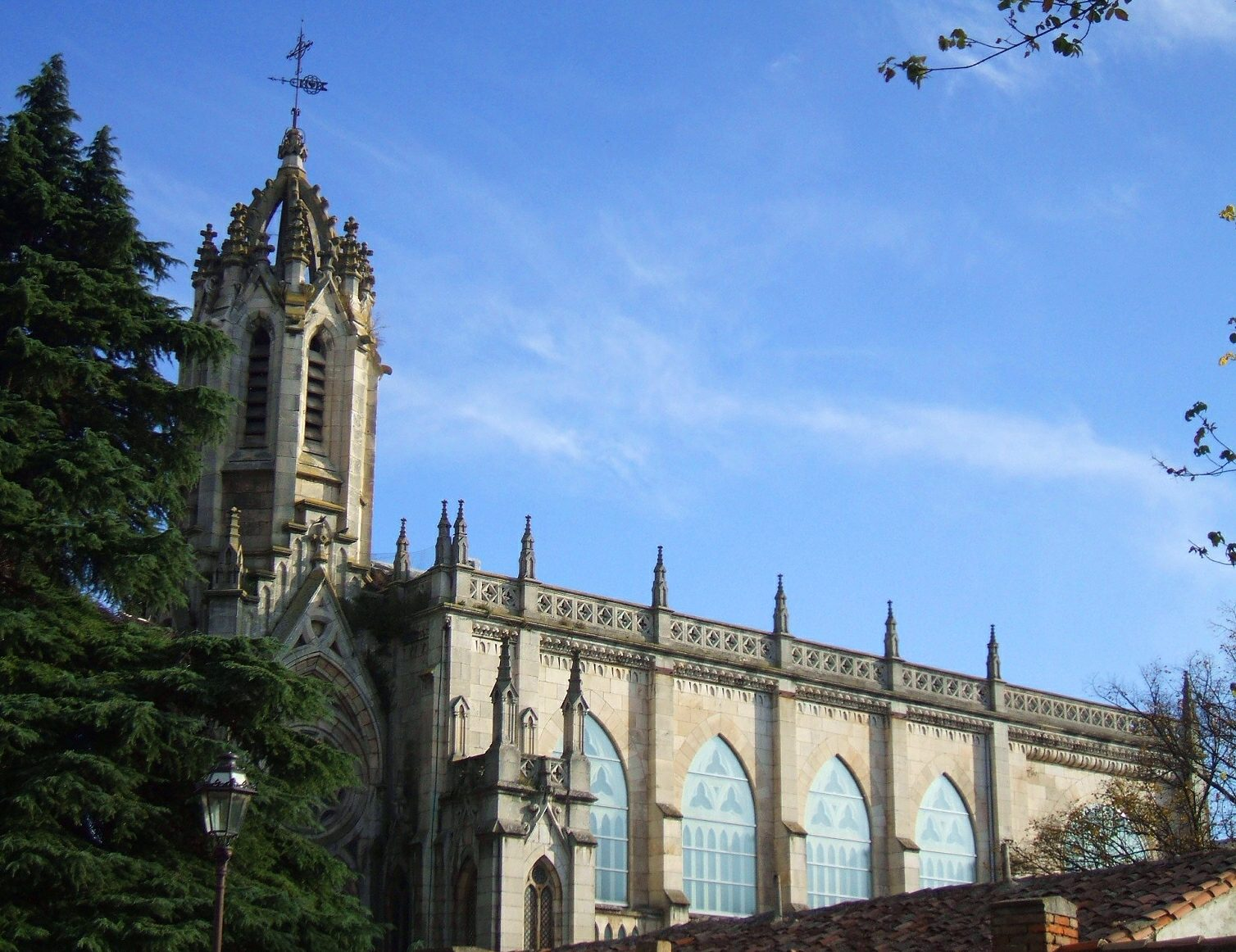 Iglesia del Convento de las Salesas (Burgos)